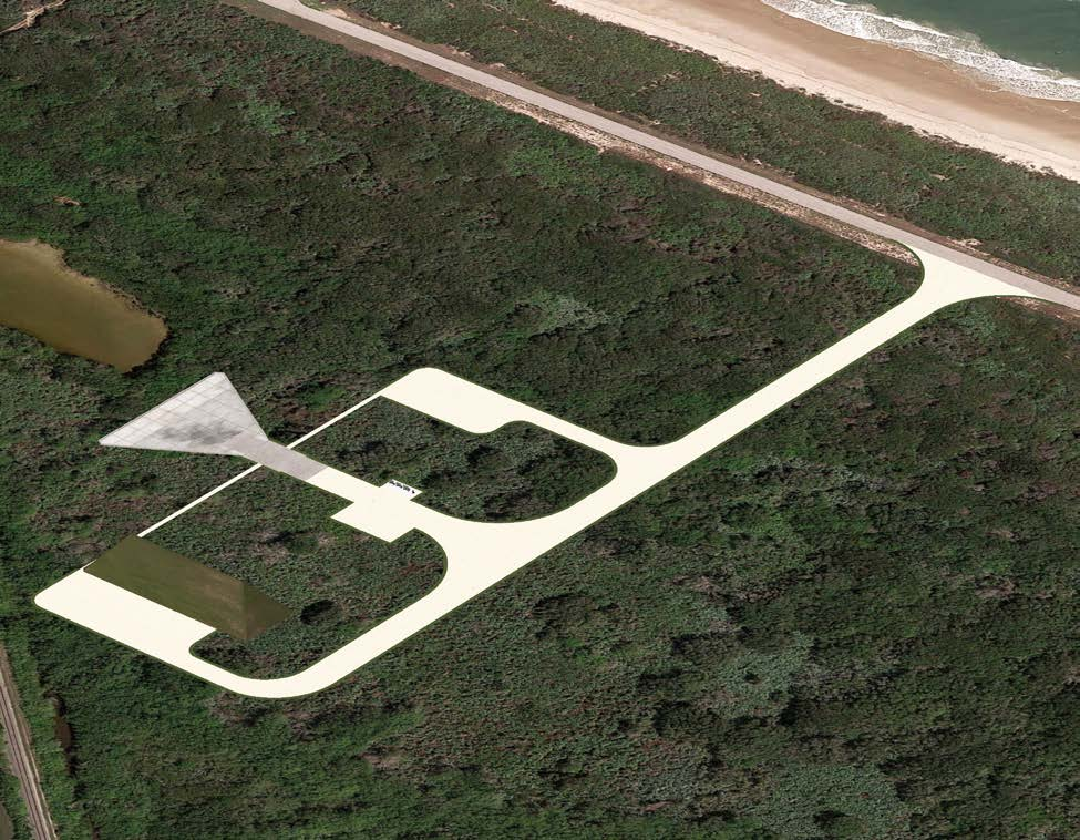 A render of Launch Complex 48 with a single pad.